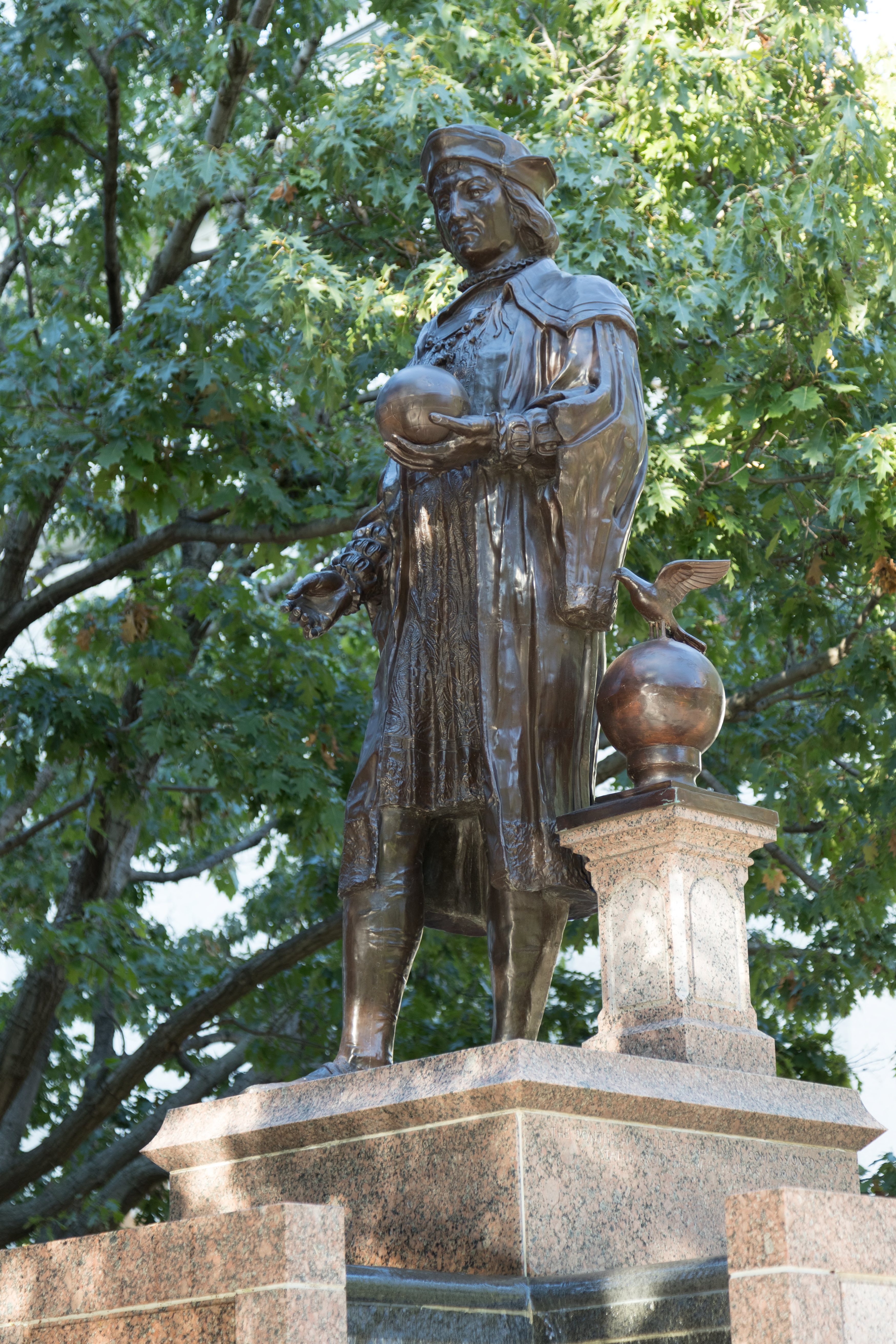 Columbus, Ohio photograph by Carol M. Highsmith.